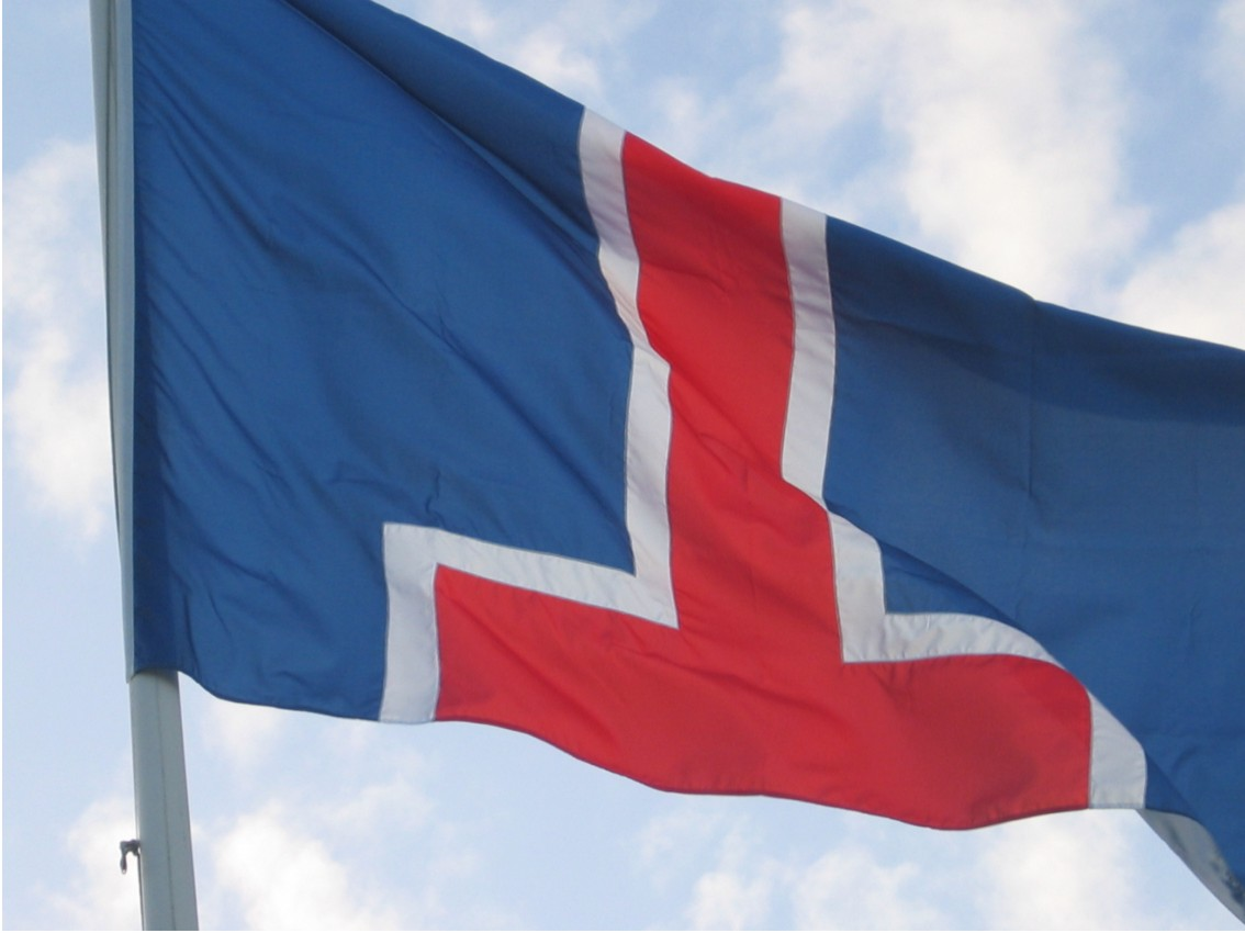 the Þórsfrónvé flag with the hammer of Thor as symbol for High Icelandic